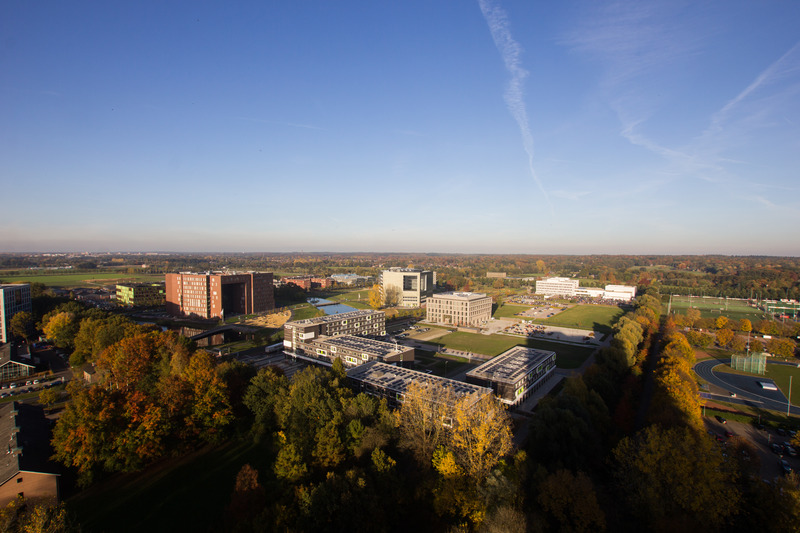 Wageningen Campus